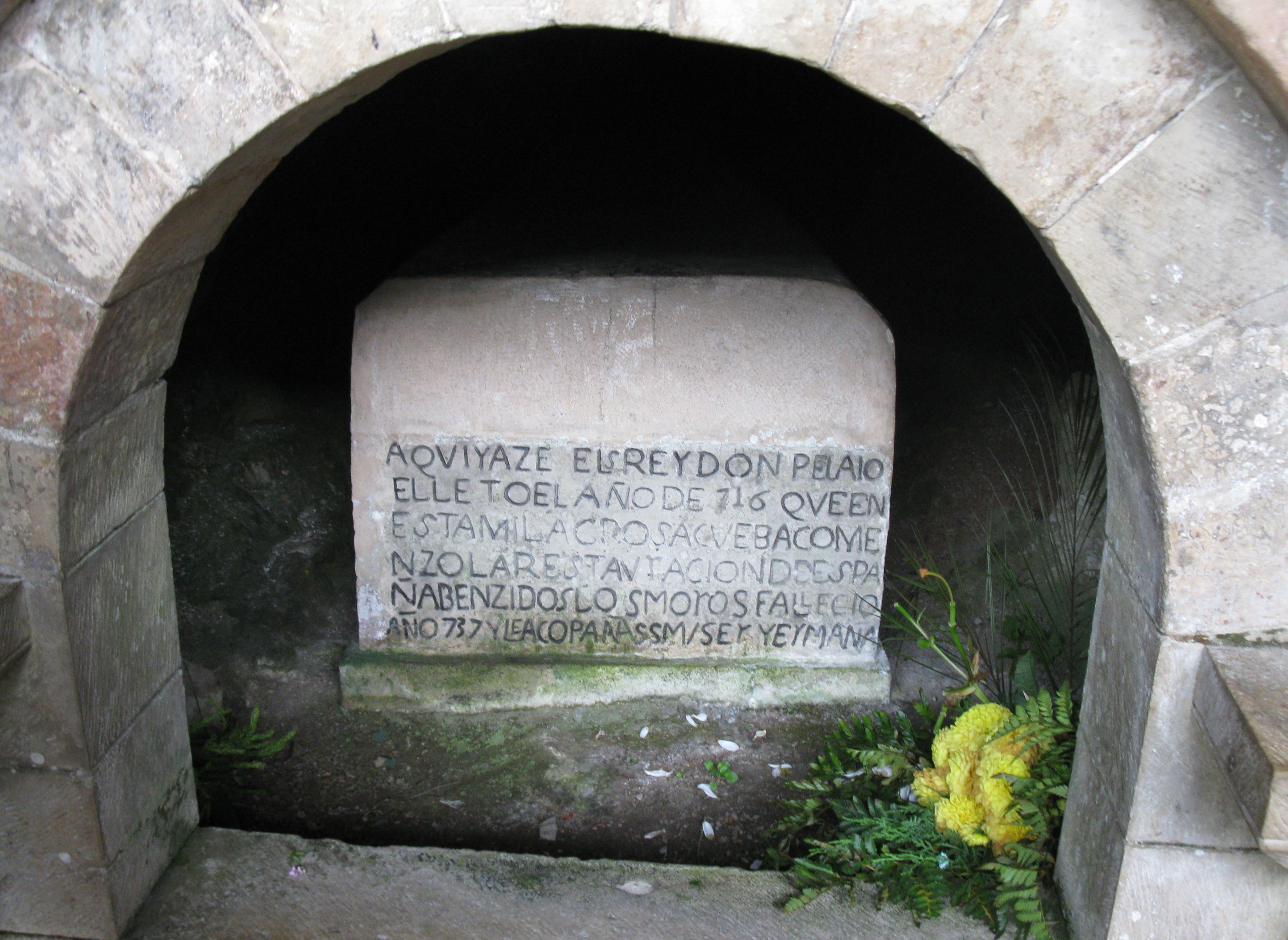 Tomb of Don Pelayo in Covadonga